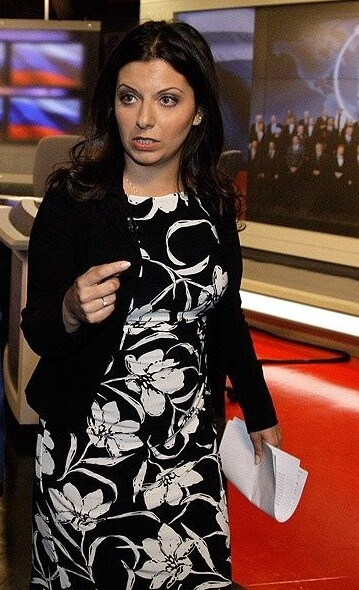 April 14, 2010. WASHINGTON. Russia Today television channel’s Editor-in-Chief Margarita Simonyan.